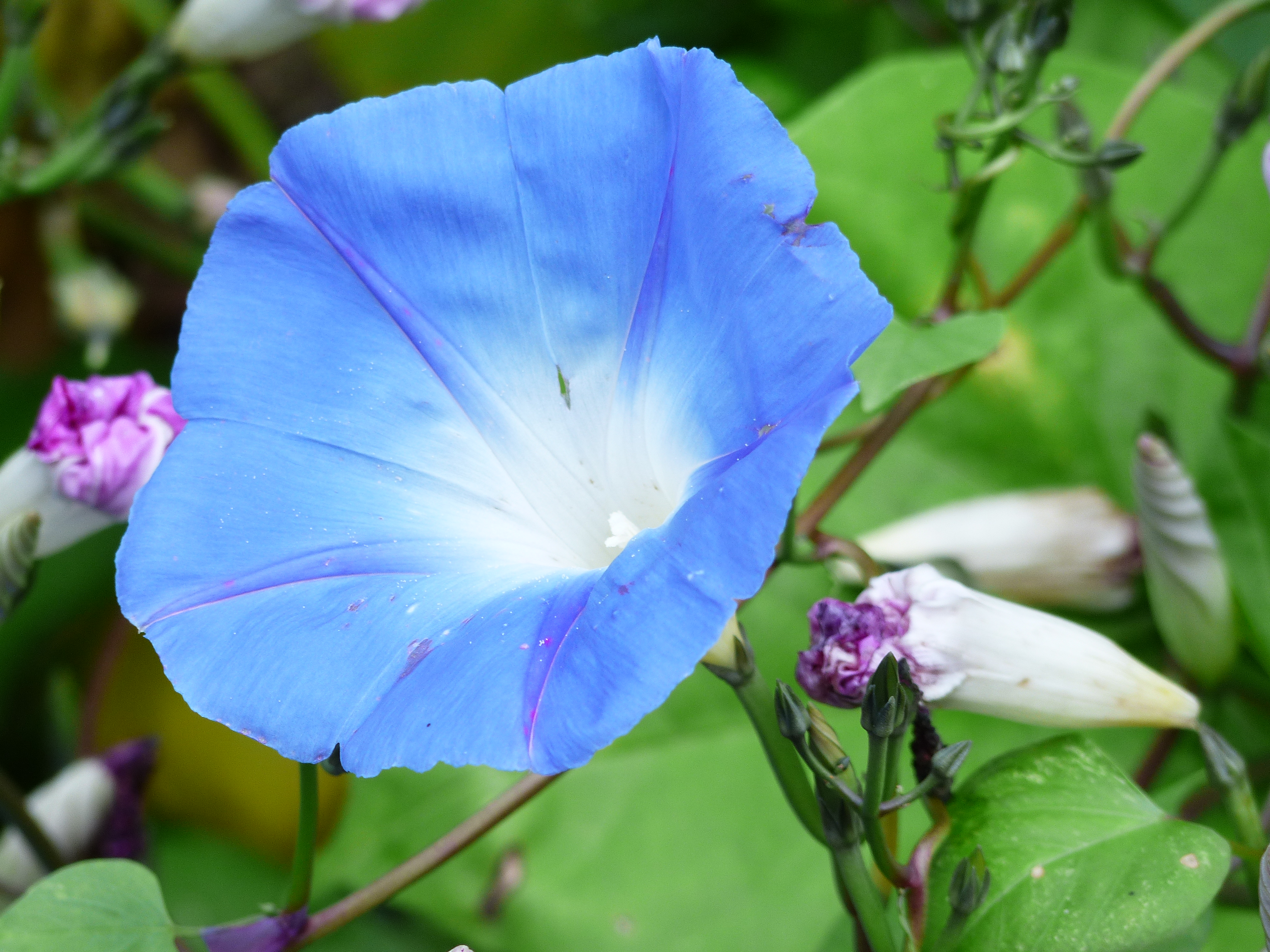 Blue Ipomoea tricolor flower in the Botanical Garden of Berlin-Dahlem